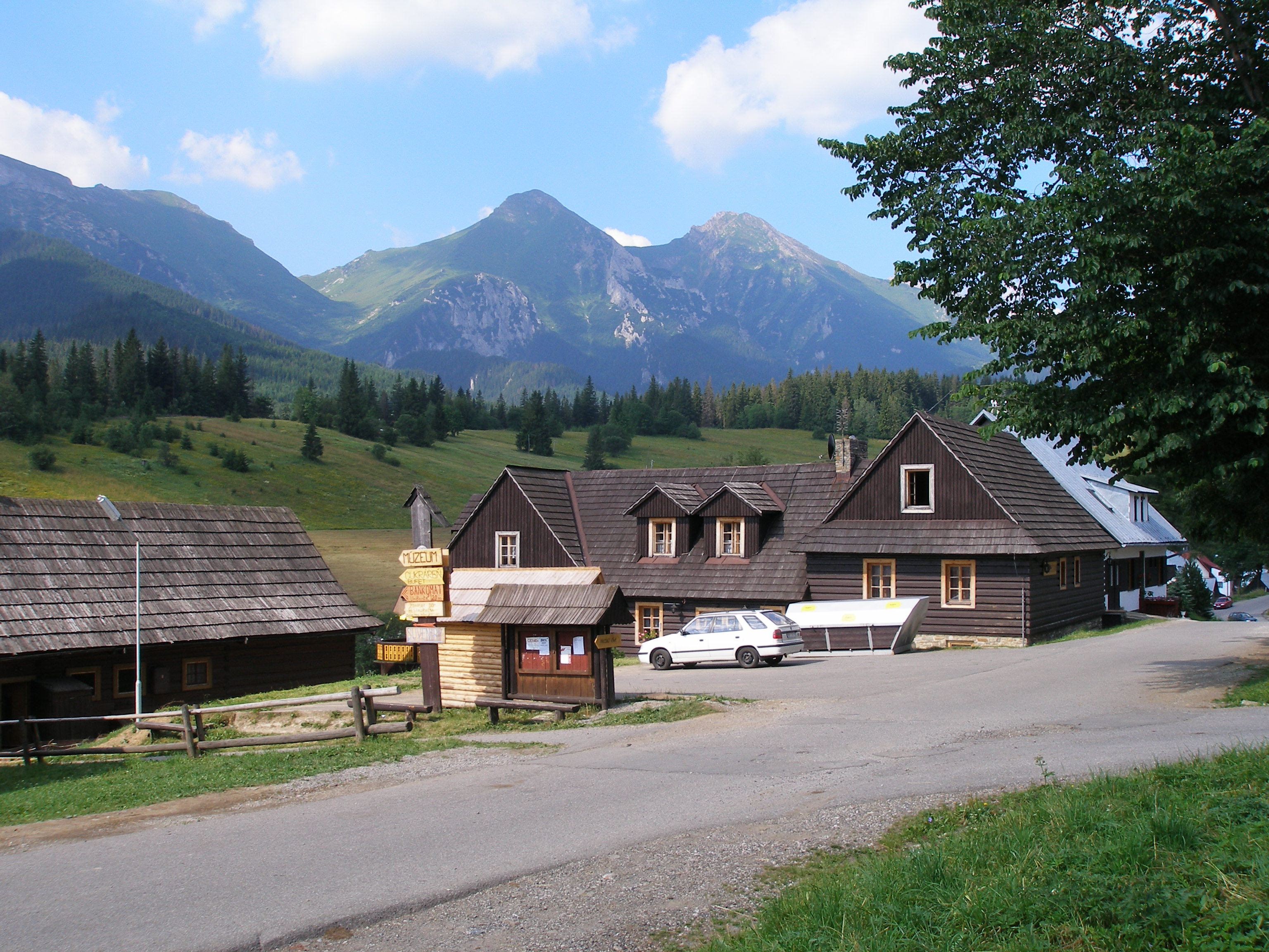 Ždiar Tatry obec